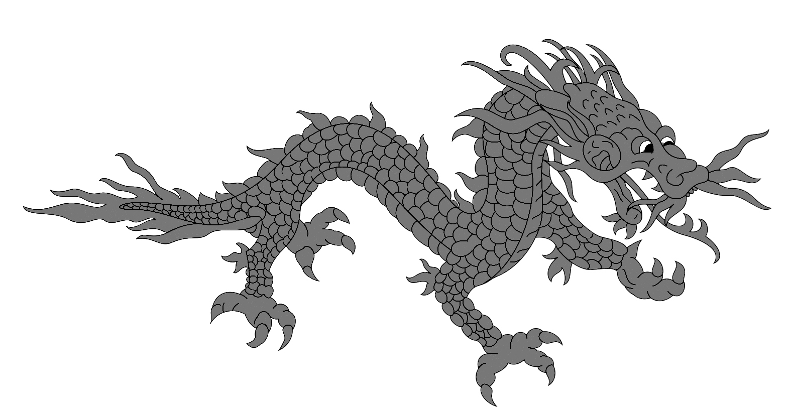 The Druk (Dzongkha: འབྲུག་) is the "Thunder Dragon" of Bhutanese mythology and a Bhutanese national symbol.